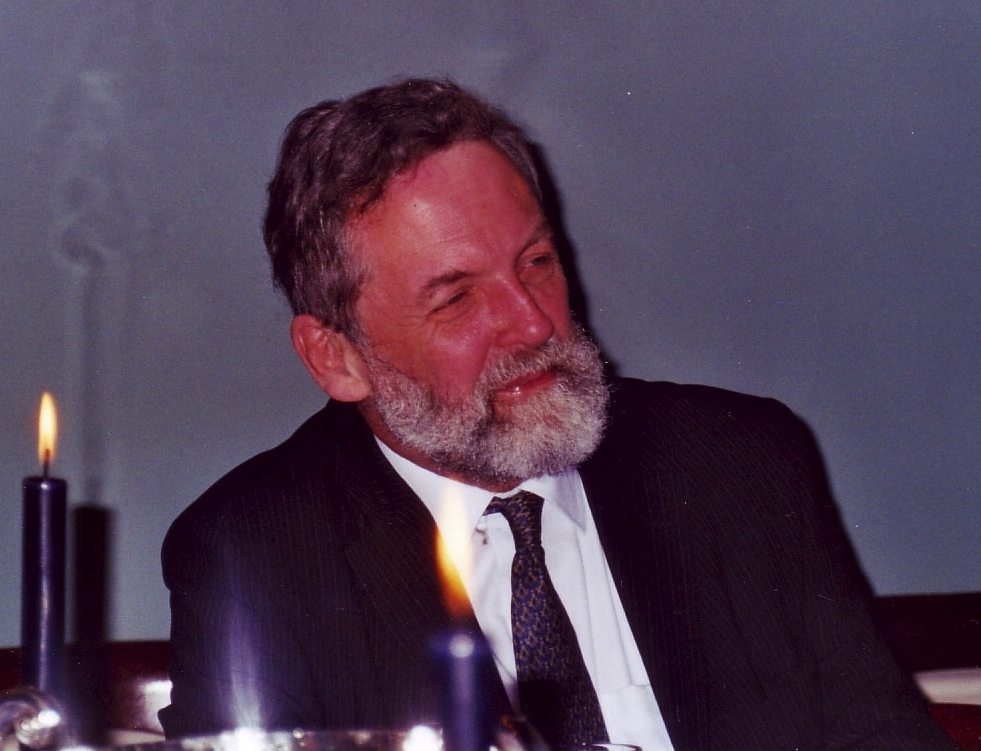 Shane Gough, 5th Viscount Gough after dinner in the Carlton Club, London, in 2005.